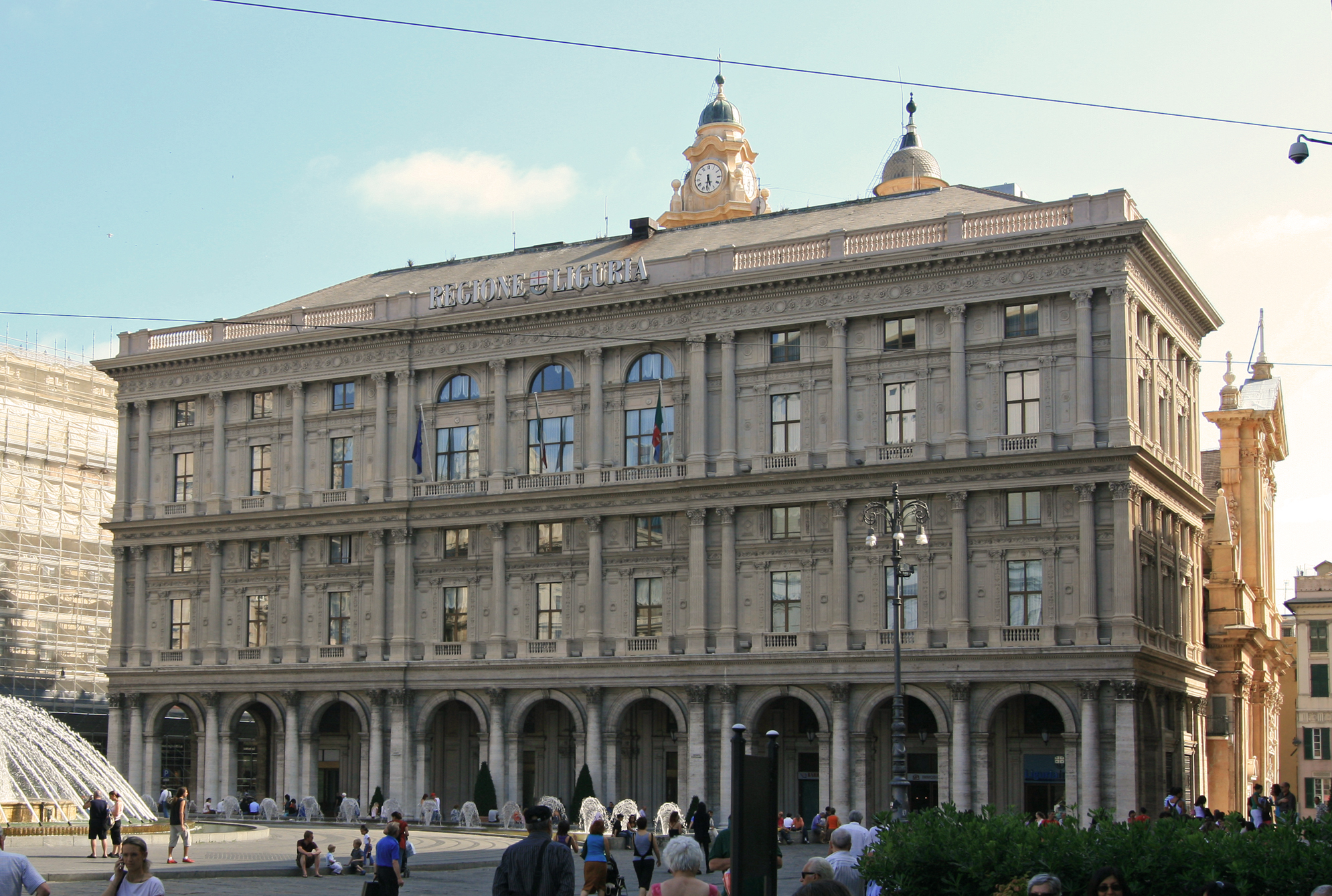 Palazzo della Regione, Genova.